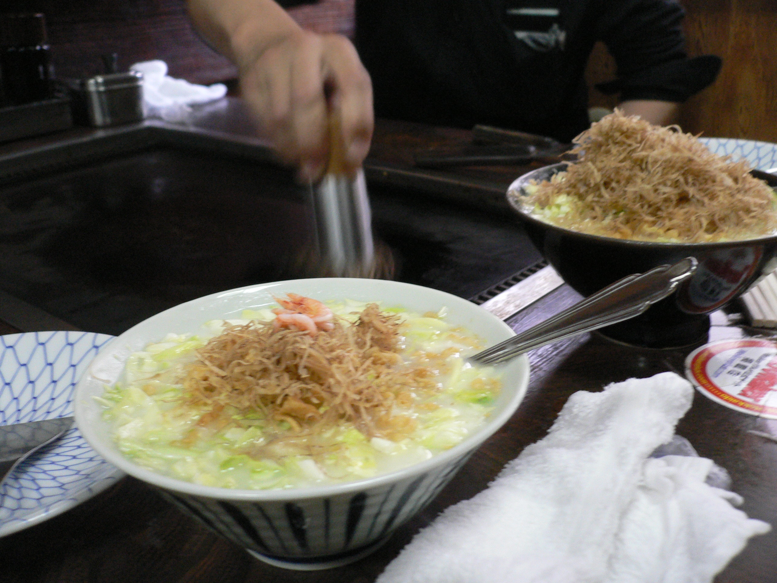 Makeing Monjayaki. In Machiya, Arakawa, Tokyo M.